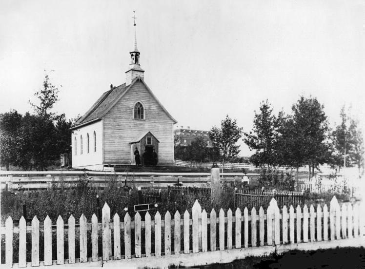 Photograph, Indian church, Pointe Bleue, Lake St. John, QC, 1892 (?), Wm. Notman & Son, Silver salts on paper mounted on paper - Albumen process - 18 x 24 cm